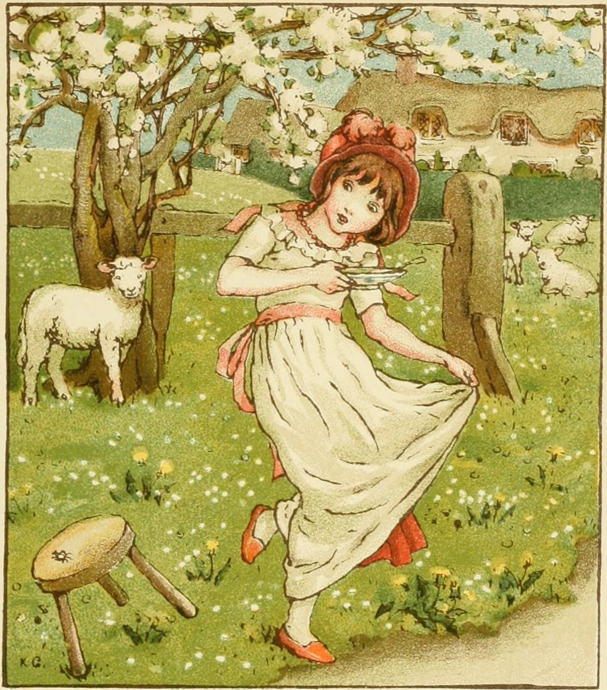 "Little Miss Muffet."An illustration from 1900, from the nursery rhyme "Little Miss Muffet". From page 34 (link) of the book The April Baby's Book of Tunes, written by Elizabeth von Arnim and illustrated by Kate Greenaway.